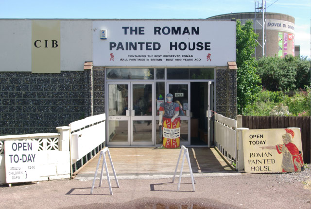 The Roman Painted House, Dover Tucked away on a back street close to the town centre and housed in this nondescript building are the remarkable remains of a Roman house - the finest example in Britain. Well worth the £2 entry fee, more details are available at: .